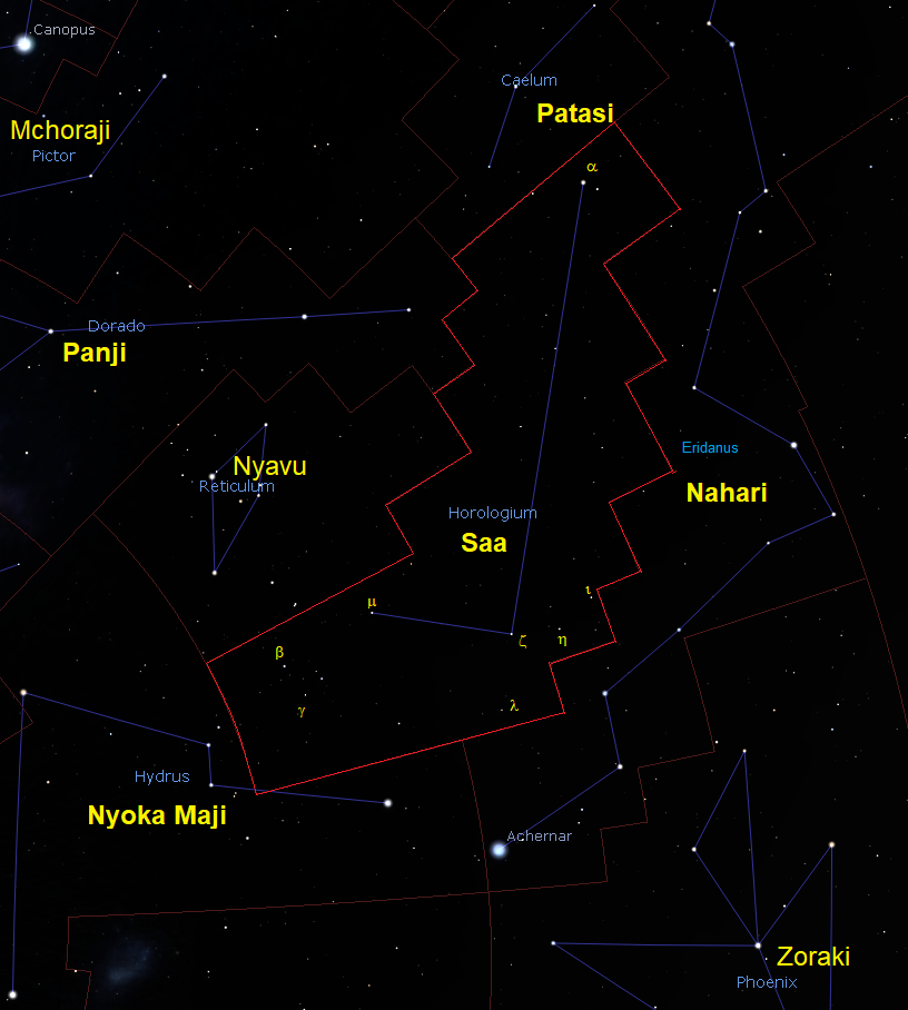 Constellation Horologium as seen from Tanzania, Swahili labelled Kiswahili: Kundinyota Saa (Hotologium) jinsi inavyoonekana kutoka Tanzania, majina kwa Kiswahili